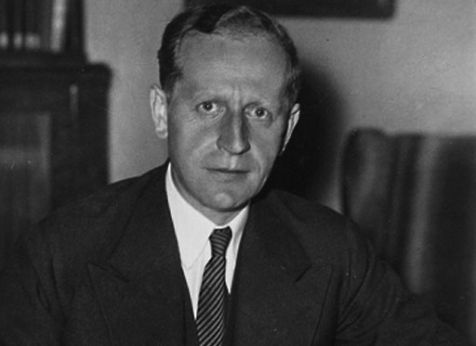 Kurt Schmitt as General Director of Allianz